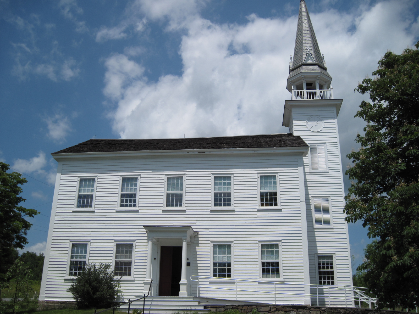 Located in the central square of the original Village of Duanesburg, this church was built by James Duane in 1792. It is the oldest unaltered Episcopal Church in NYS; its first sermon was conducted on August 24, 1793. Its interior contains an “hourglass” pulpit, common in churches of the period. Christ Church is the final resting place of James Duane and General William North. Photo by Wendy Voelker